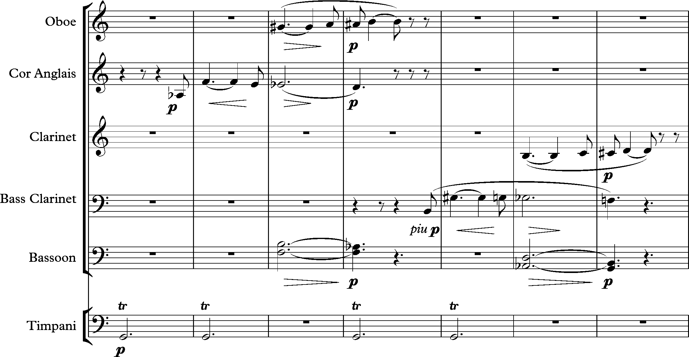 Wagner, Tristan Prelude, closing bars